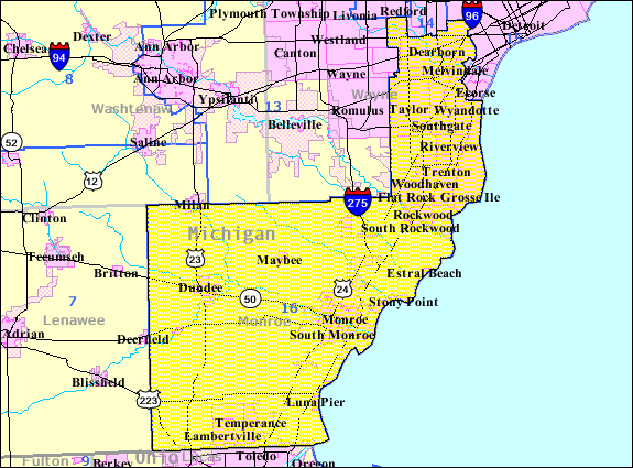 Map of Michigan's 16th congressional district for the en:106th United States Congress, illustrating boundaries prior to redistricting in 2002.